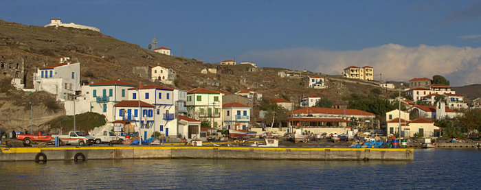 View on the village Agios Efstratios.